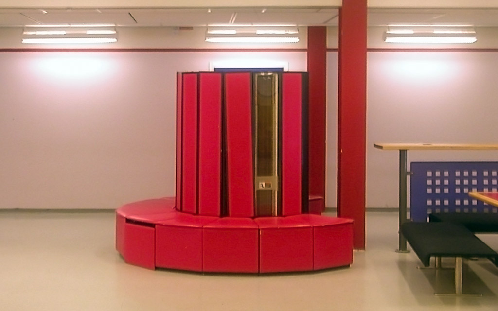 CRAY X-MP/416 supercomputer in C building at Linköping University, Linköping, Sweden. This computer was in service at the university from 1989 to 1993, replacing an earlier CRAY-1.